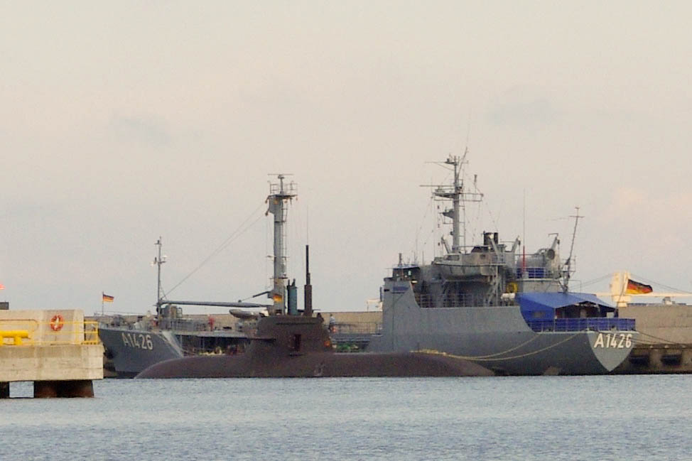 The German Navy Type 212 class submarine "U-33" and tanker A1426 "Tegernsee" in Tallinn harbor, Estonia.